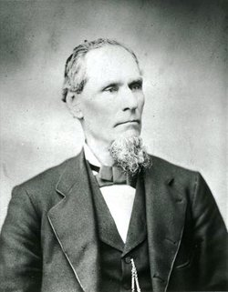 James Longmire